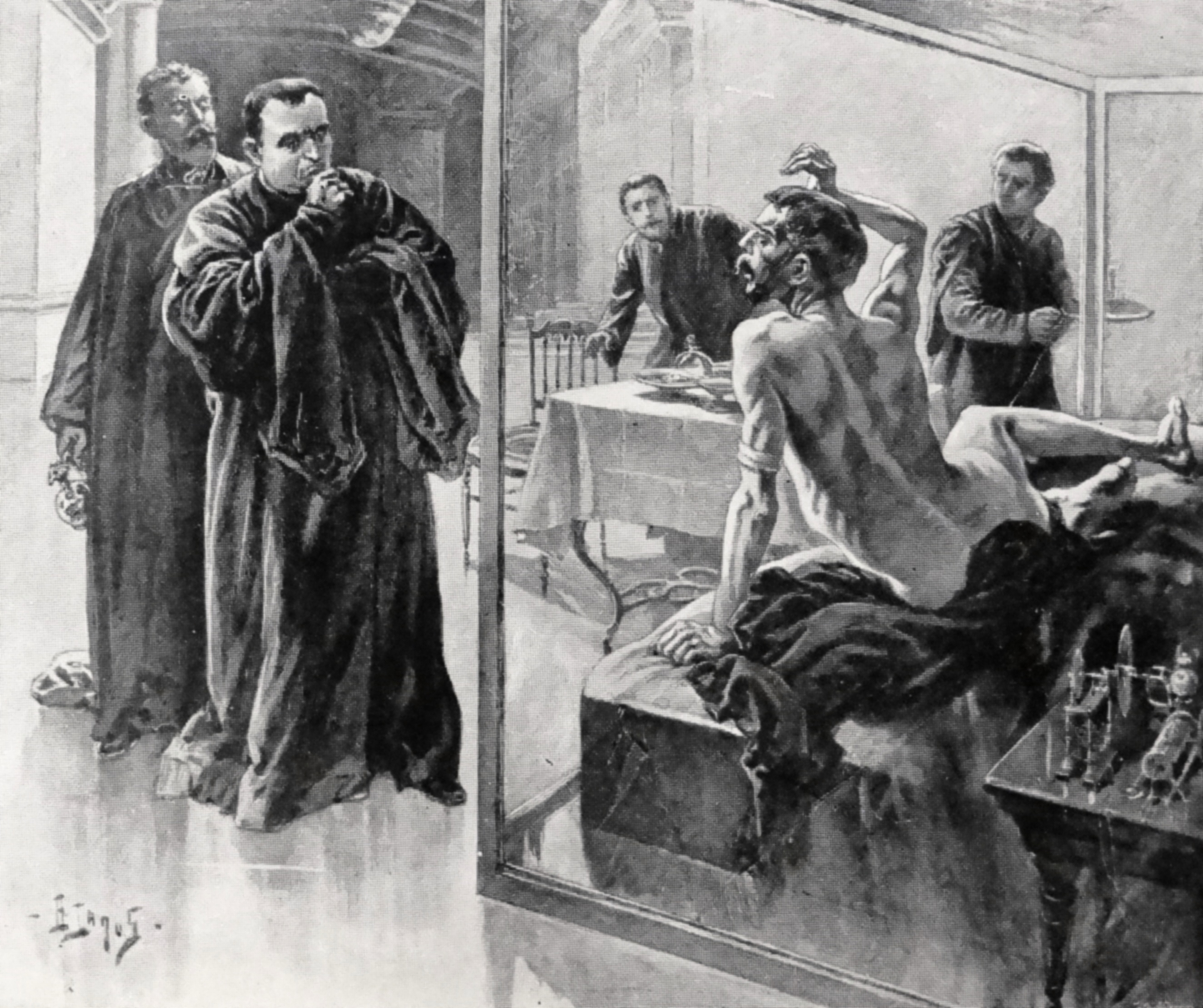 "Graham awakens unexpectedly." Art by H. Lanos for "When the Sleeper Wakes" by H. G. Wells (1899)